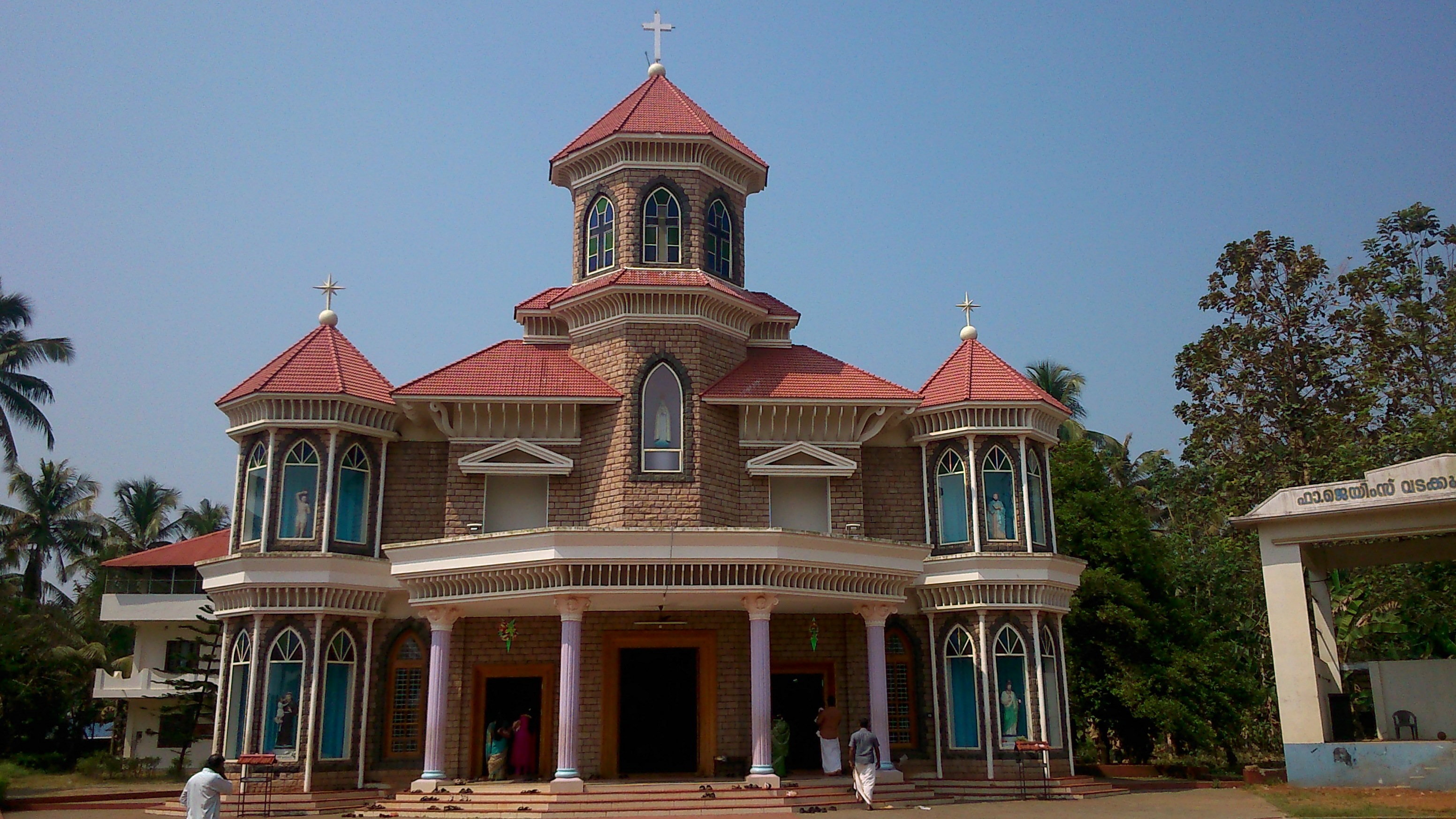 Vellanchira - Our Lady of Fathima Church വെള്ളാഞ്ചിറ ഫാത്തിമ മാതാ പള്ളി റോമൻ കാത്തലിക് സീറോ മലബാർ സഭയുടെ ഇരിങ്ങാലക്കുട രൂപതയിലുള്ള ചാലക്കുടി ഫോറോന പള്ളിയുടെ കീഴിലുള്ള പള്ളിയാണ്...